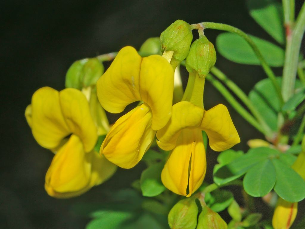 Hippocrepis emerus - Genova, Italy